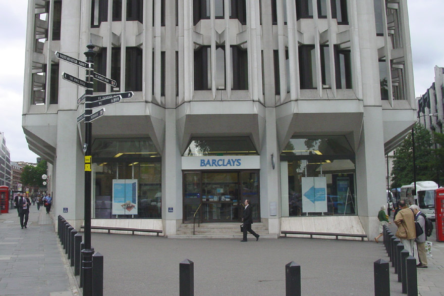 Barclays Bank, 2 Victoria Street, Westminster, London